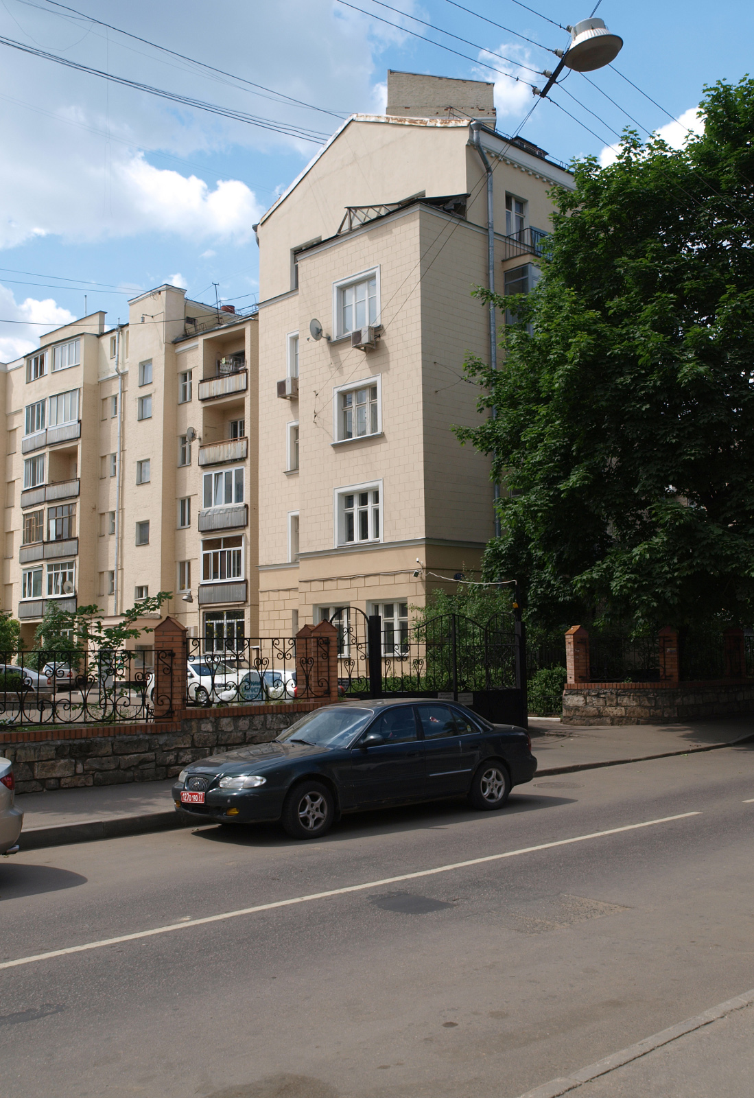 1st Spasonalivkovsky Lane, Moscow.